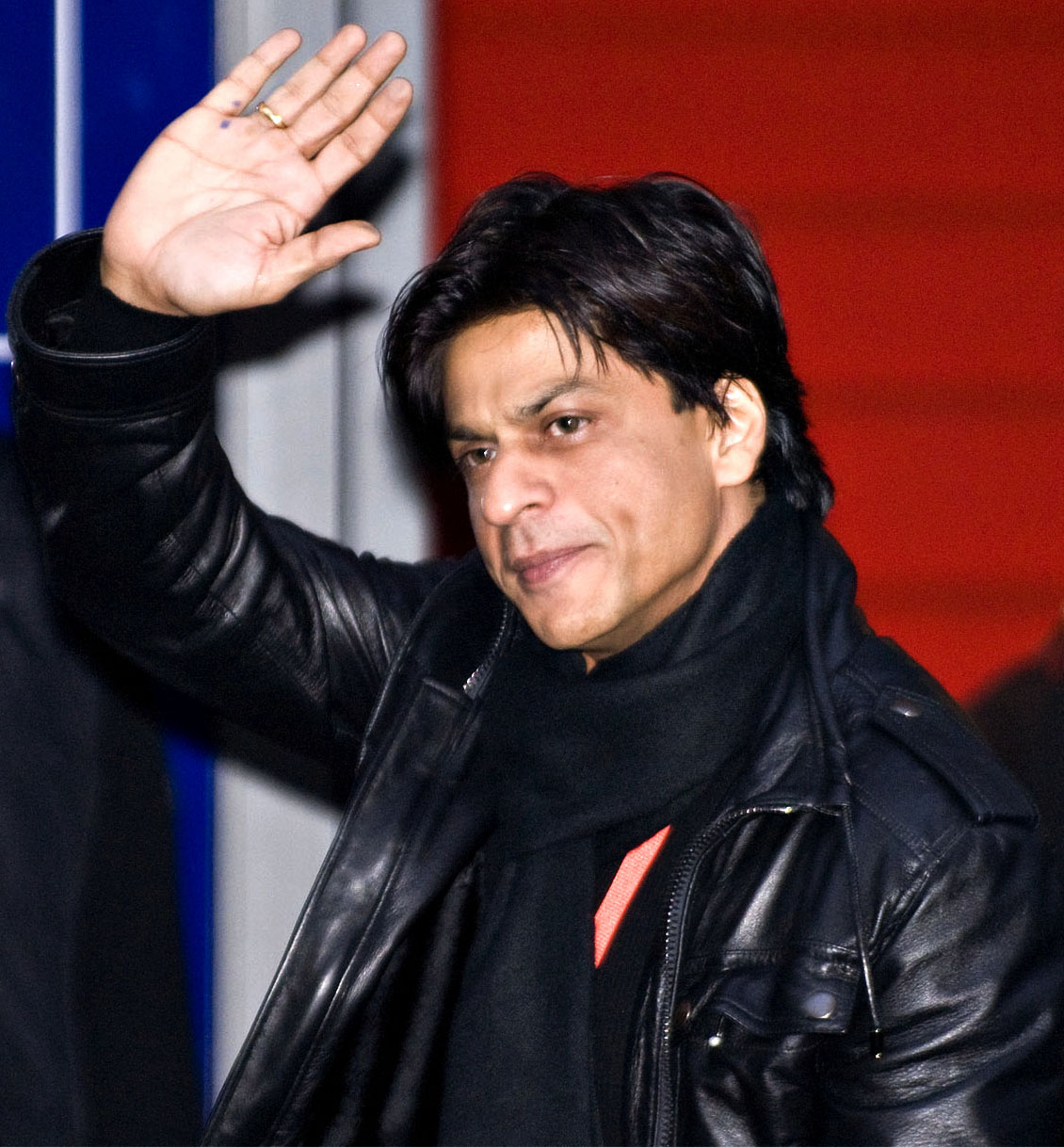 Indian actor Shah Rukh Khan, arrival for press conference of "Om Shanti Om" at the Hyatt Hotel, Potsdamer Platz, Berlin